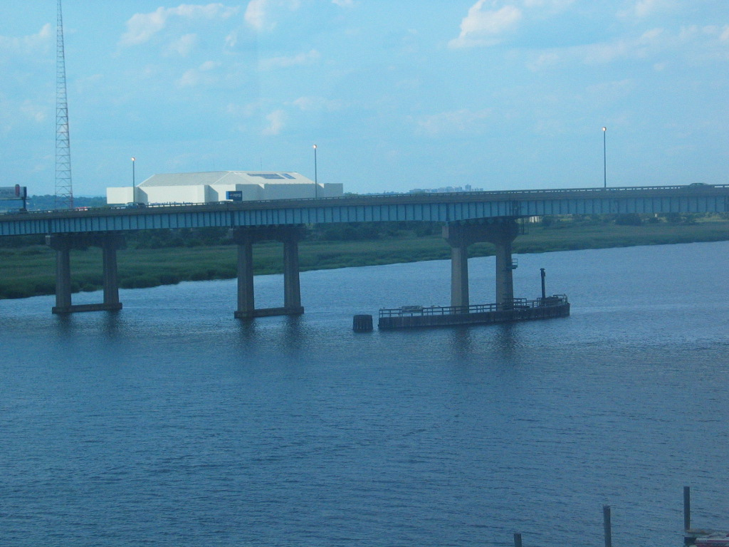 The bridge over the Hachensack river in New Jersey